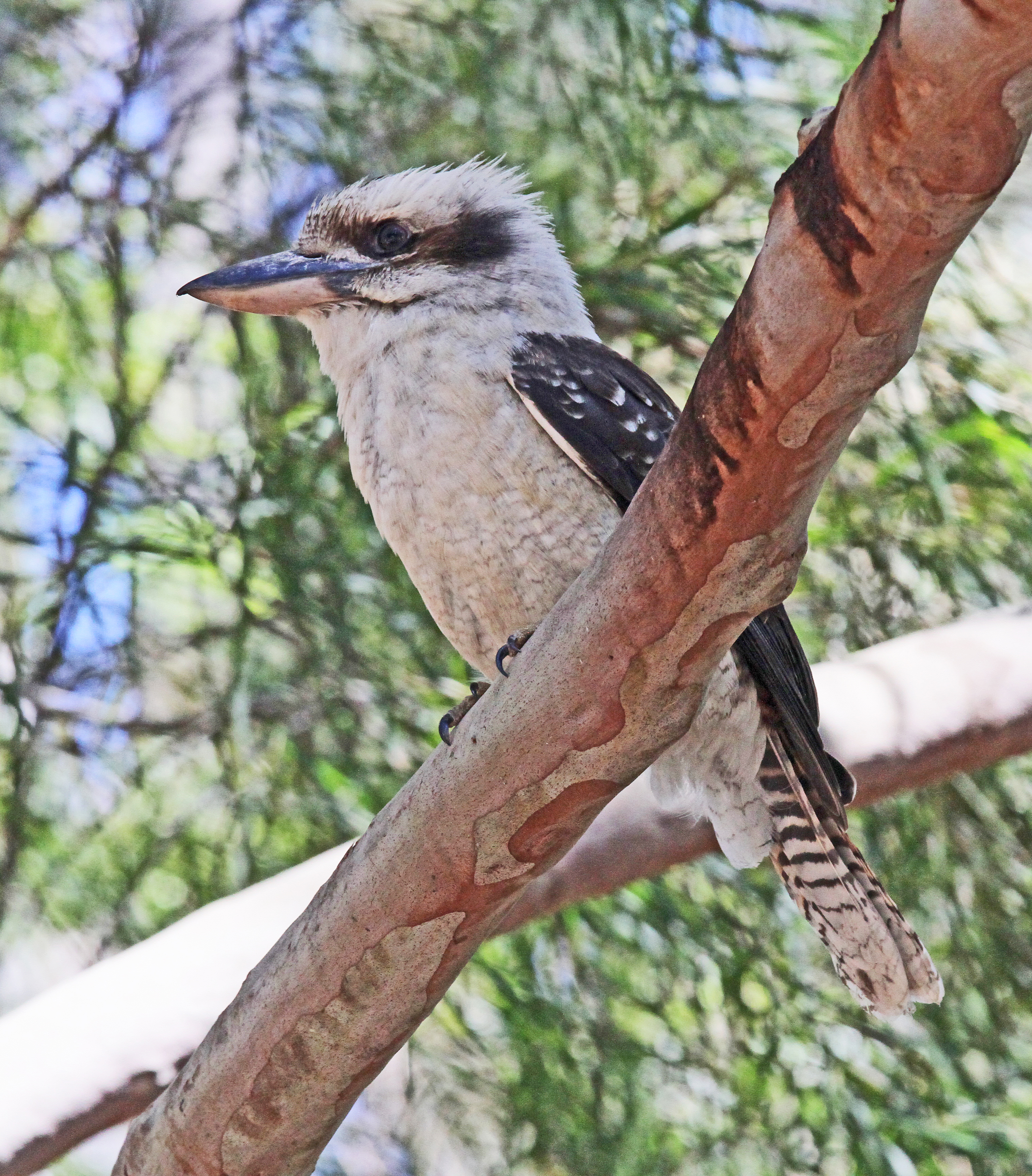 photo of Laughing Kookaburra